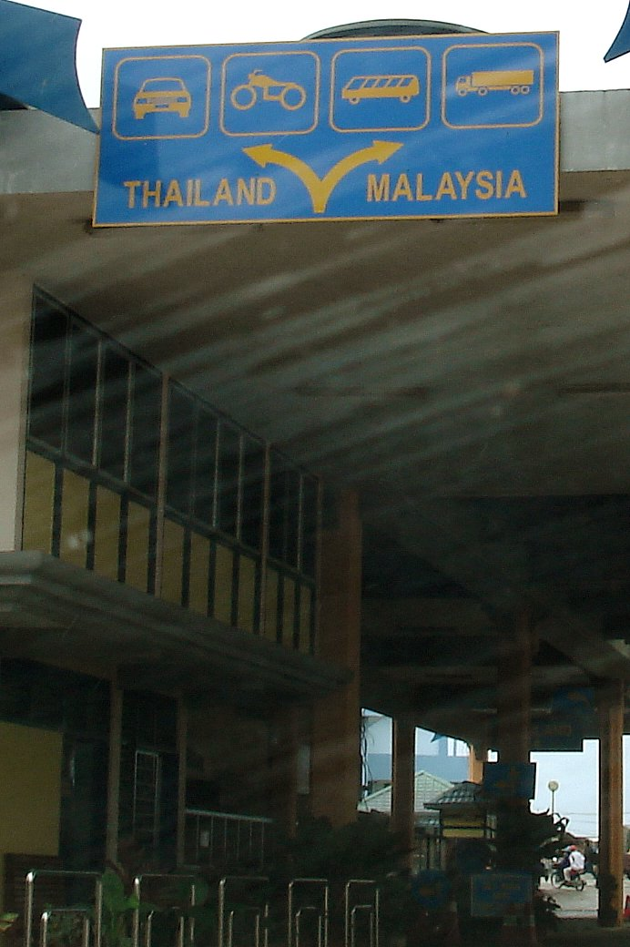 The customs checkpoint in Kelantan (Malaysia) with Thailand at Rantau Panjang.